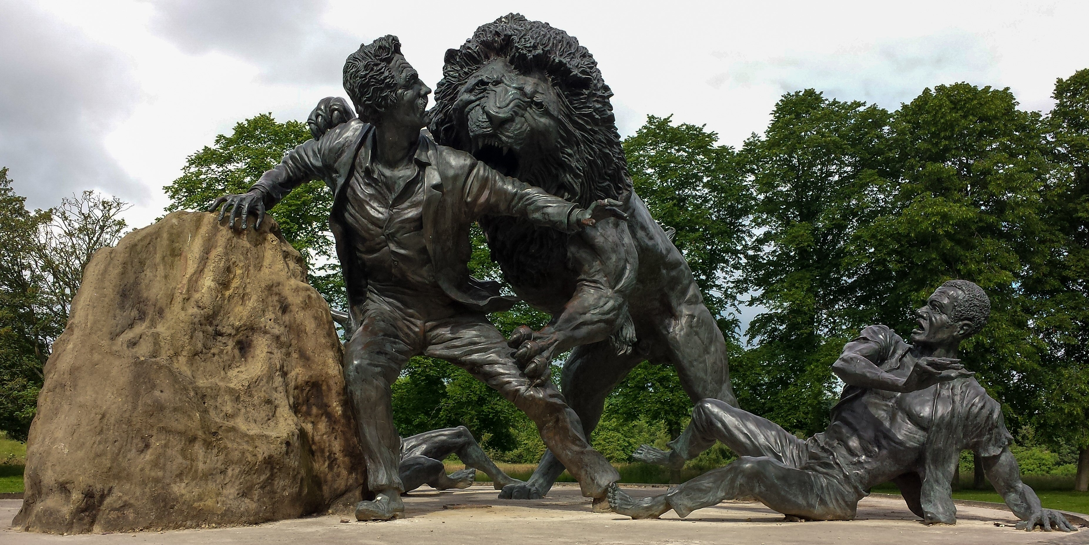 This monumental bronze entitled "Livingstone and the Lion" is at at the David Livingstone Centre, Blantyre, Scotland. The statue was designed and modelled in wax by Ray Harryhausen and Gareth Knowles created the bronze from that.